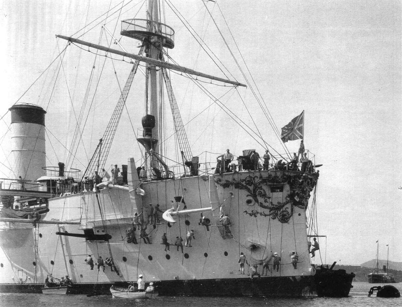 Imperial Russian cruiser Riurik.